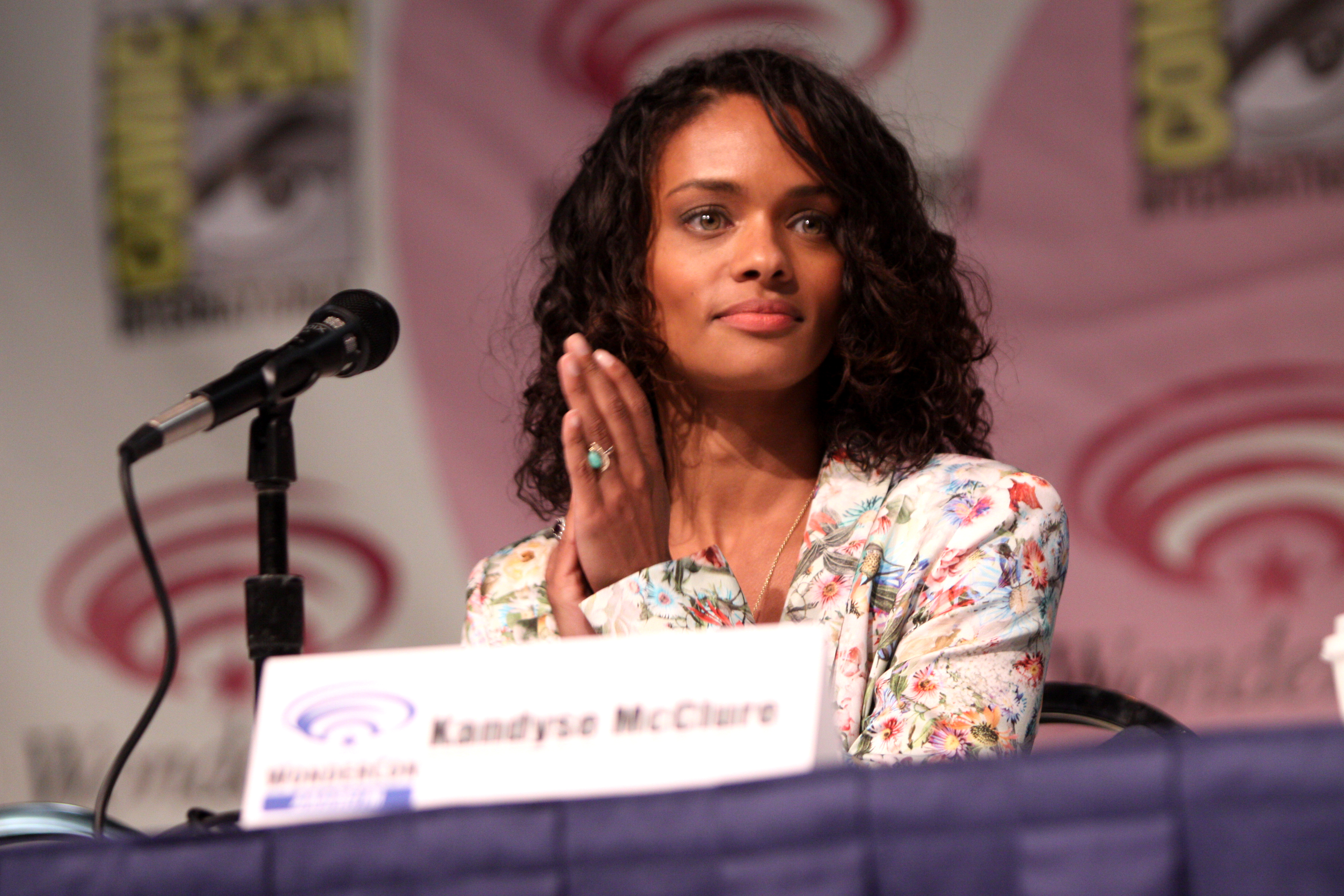 Kandyse McClure at the 2013 WonderCon